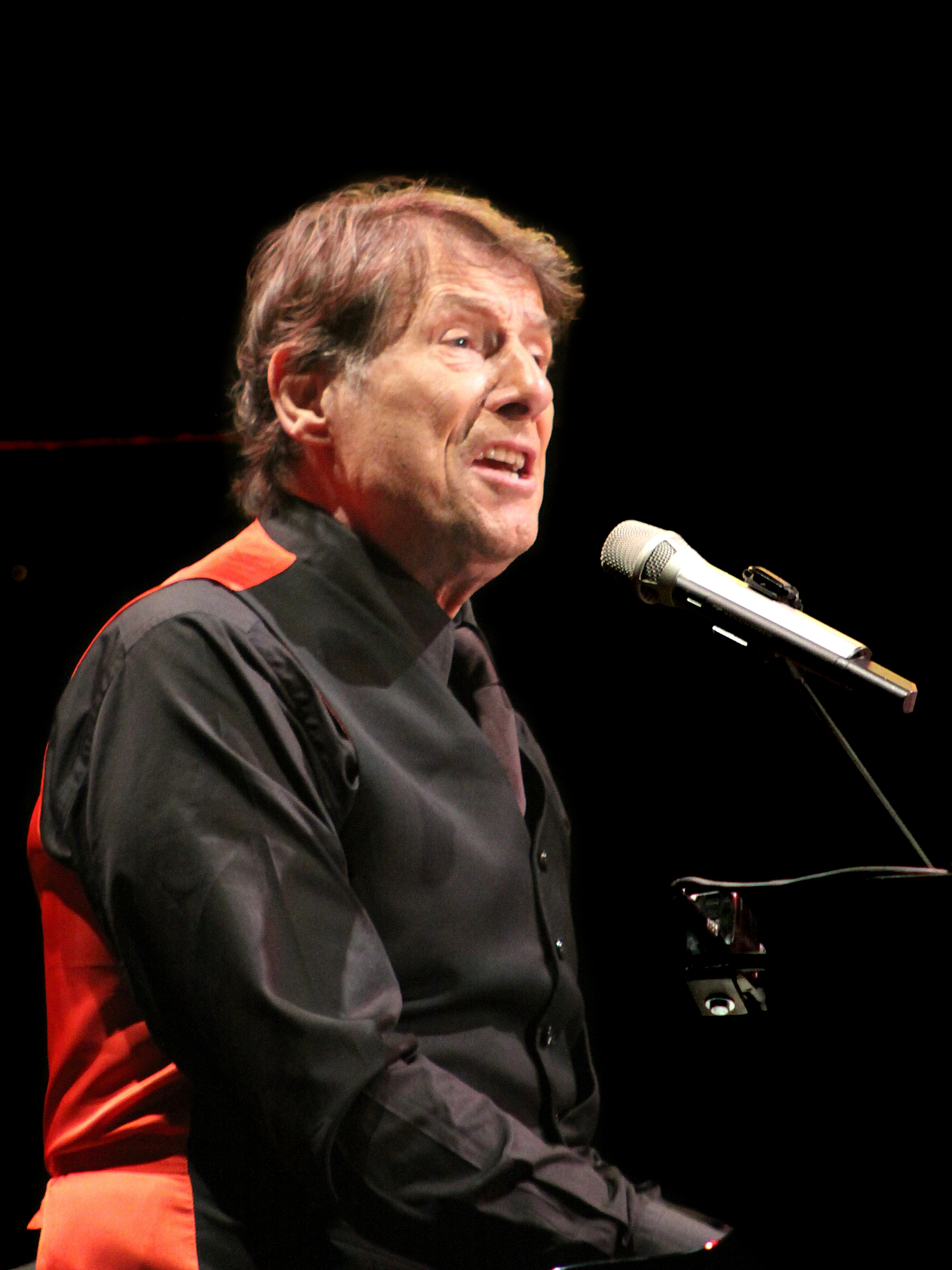 Udo Jürgens in concert at “Der Soloabend 2010” in Sankt Margarethen im Burgenland (Austria)